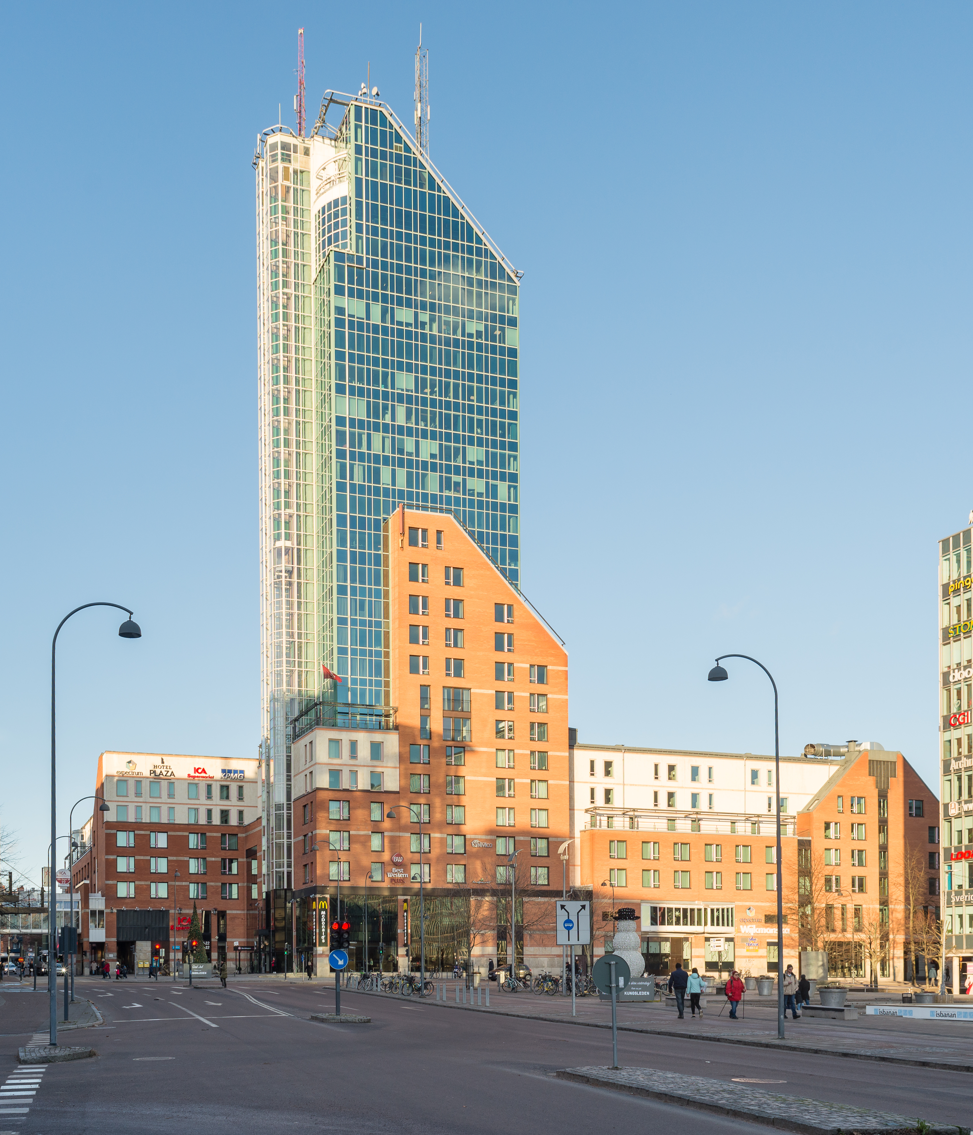 Skrapan, a tower block (mostly office and hotel) in Västerås, Sweden.